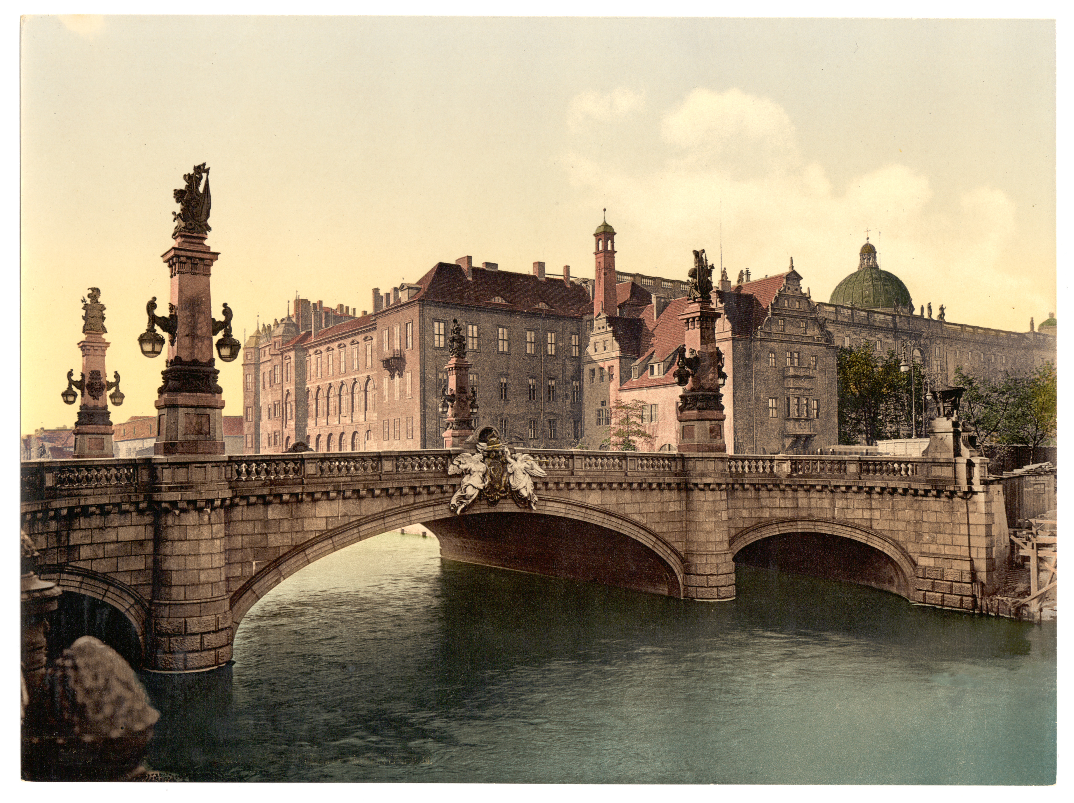 Berlin, Kaiser Wilhelm-Brücke (today Liebknechtbrücke) in Berlin-Mitte, with sculptures by Eduard Lürssen, Berlin City Palace (Stadtschloss) with Schlossapotheke in the back (See original caption by the Library of Congress)